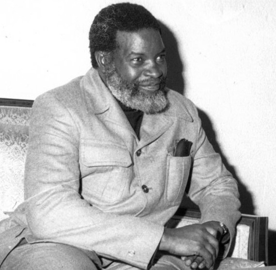 Cropped version of a previous Commons image. Namibian politician Sam Nujoma. Cropped to produce a more relevant image for the specific individual depicted. Limited contextual relevance to original work.